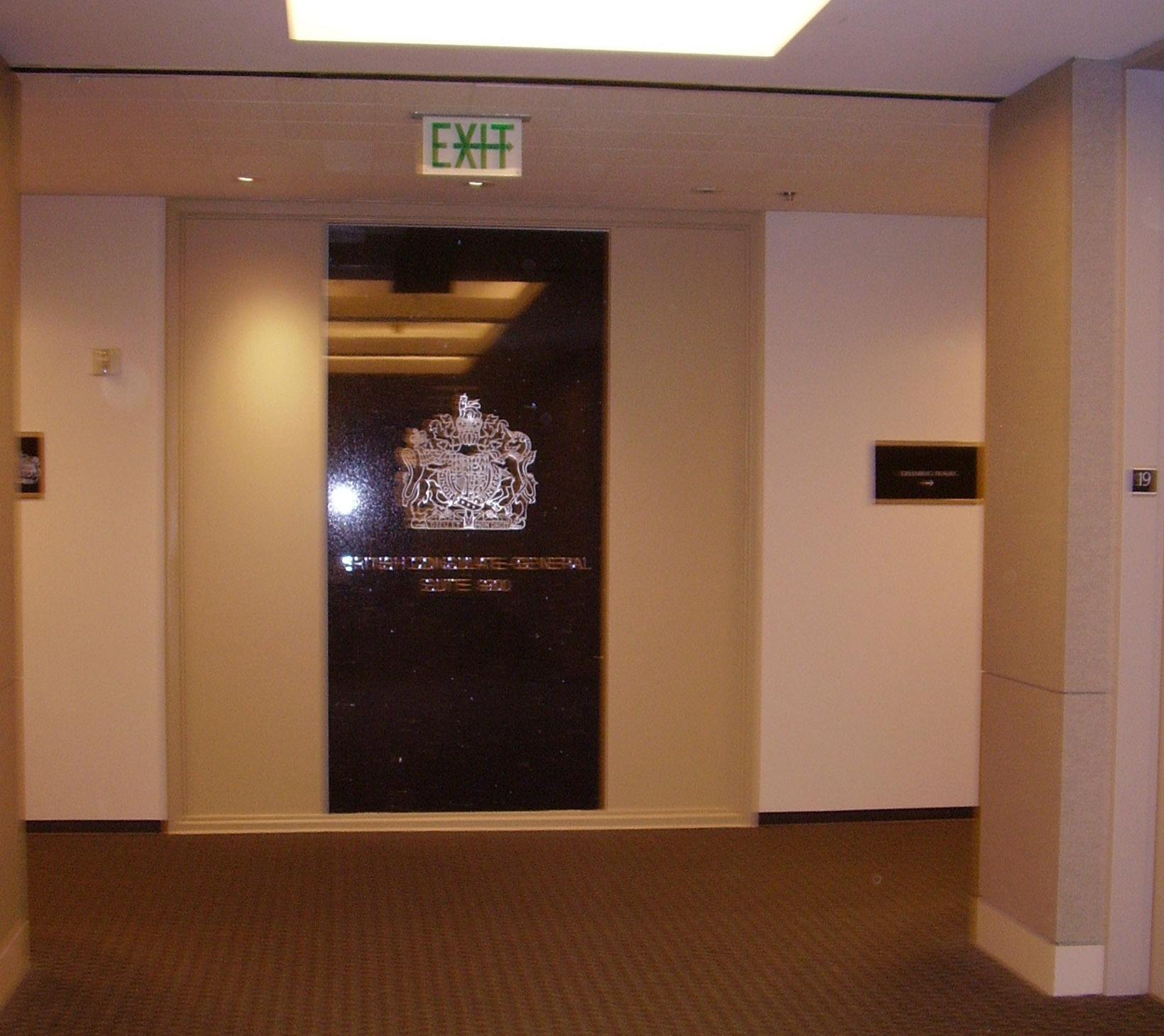 Consulate-General of the United Kingdom in Houston - Suite 1900 of the Wells Fargo Plaza, 1000 Louisiana Street